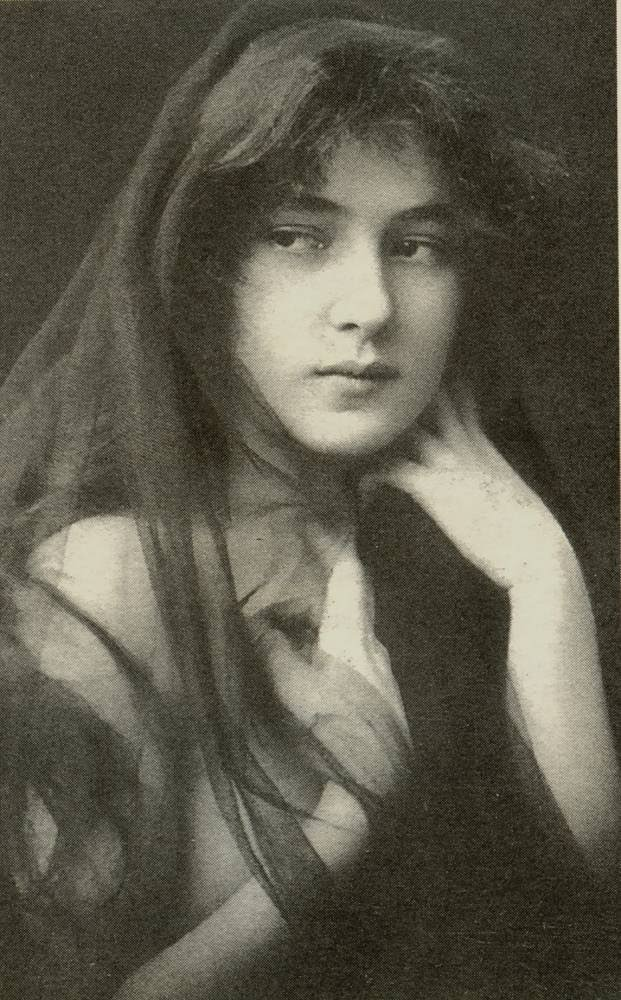 Evelyn Nesbit, 16 years old